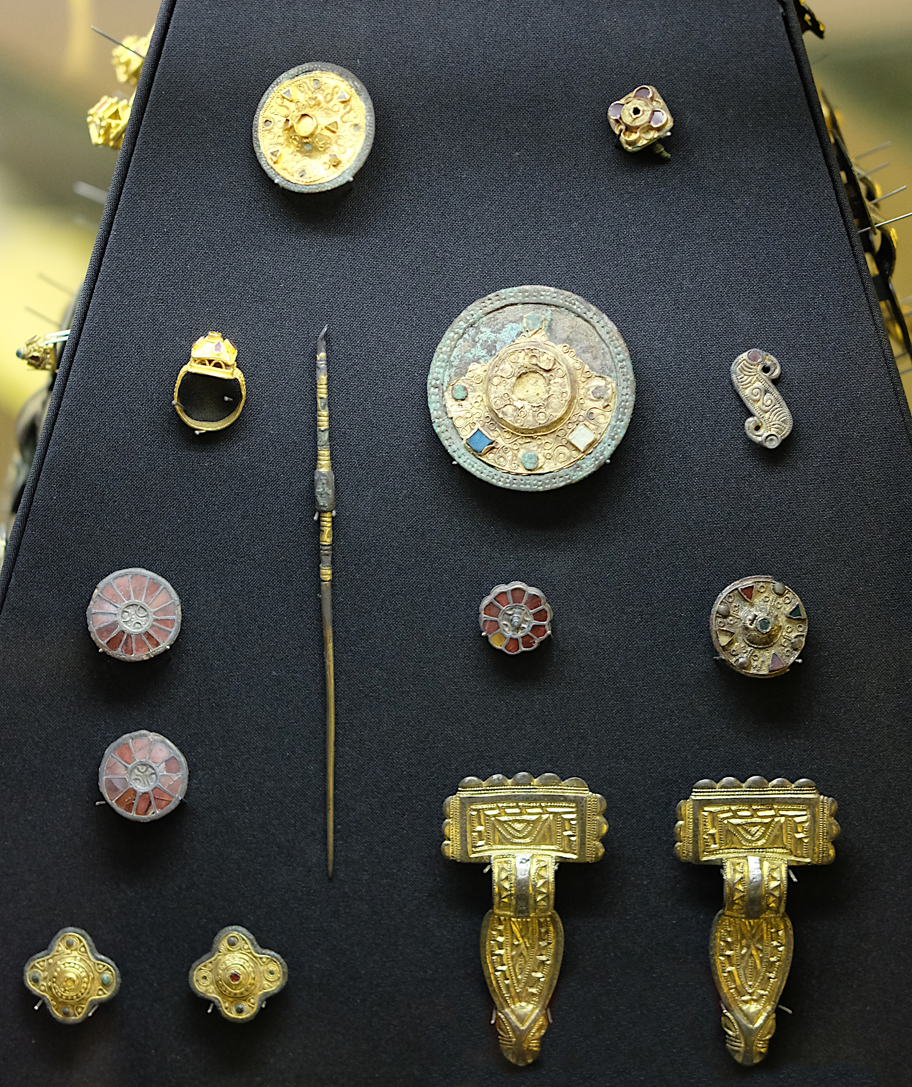 Several funerary jewels found in the Merovingian necropolis of Trivières (Hainaut - Blegium). End of the 4th century to the beginning of the 7th century. Museum of Mariemont - Morlanwelz - Belgique